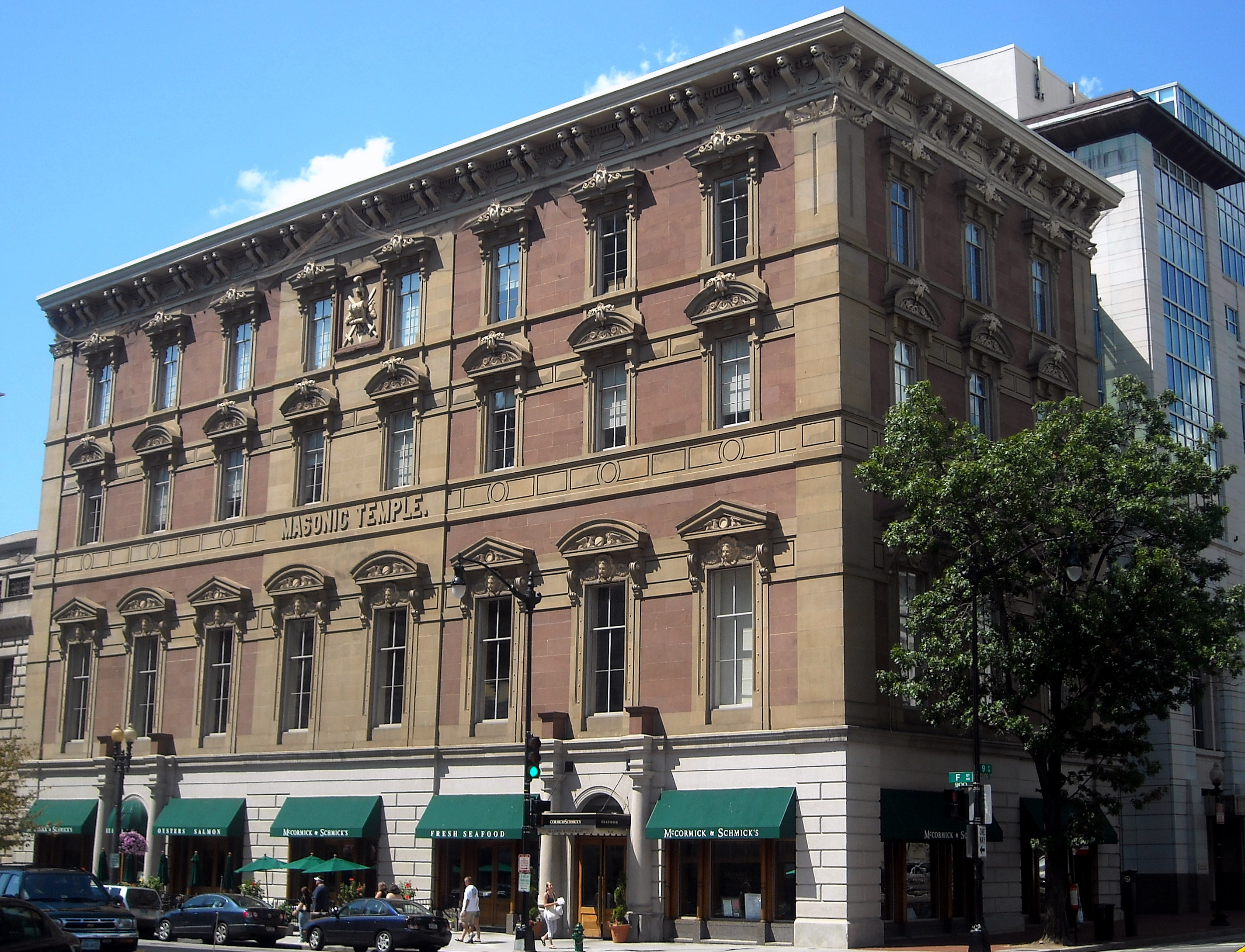 The Lansburgh Building (also known as the Julius Lansburgh Furniture Co, Inc or Old Masonic Temple) located at 901 F Street, NW in the Penn Quarter neighborhood of Washington, D.C. The French Renaissance Revival building was designed by architects Cluss (Adolf Cluss) & Kammerheuber in 1867. It's listed on the National Register of Historic Places and is a contributing property to the Downtown Historic District. Currently, the Lansburgh serves as commercial space. A McCormick & Schmick's is located on the ground level.